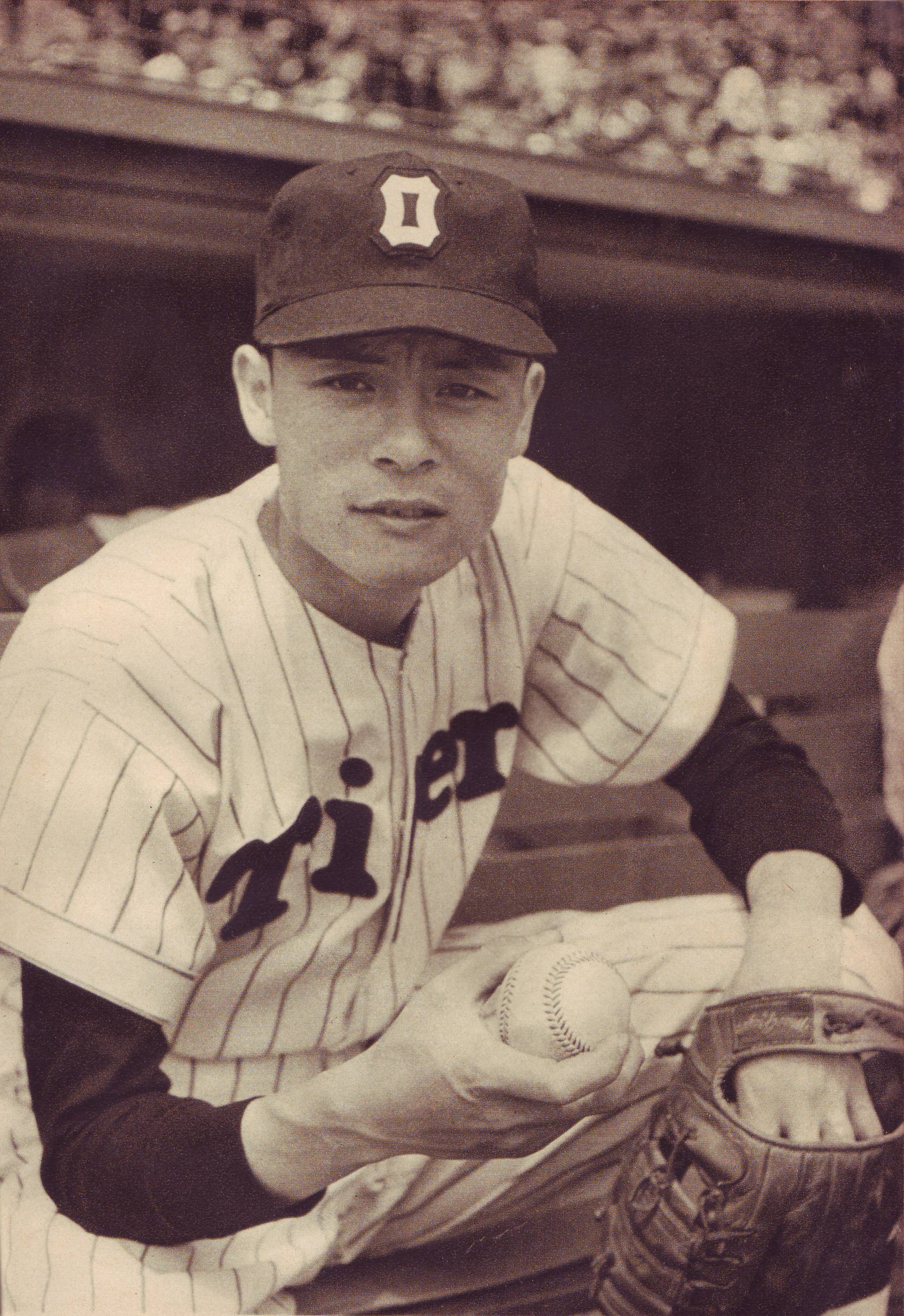 Masaaki Koyama. taken in 1959.